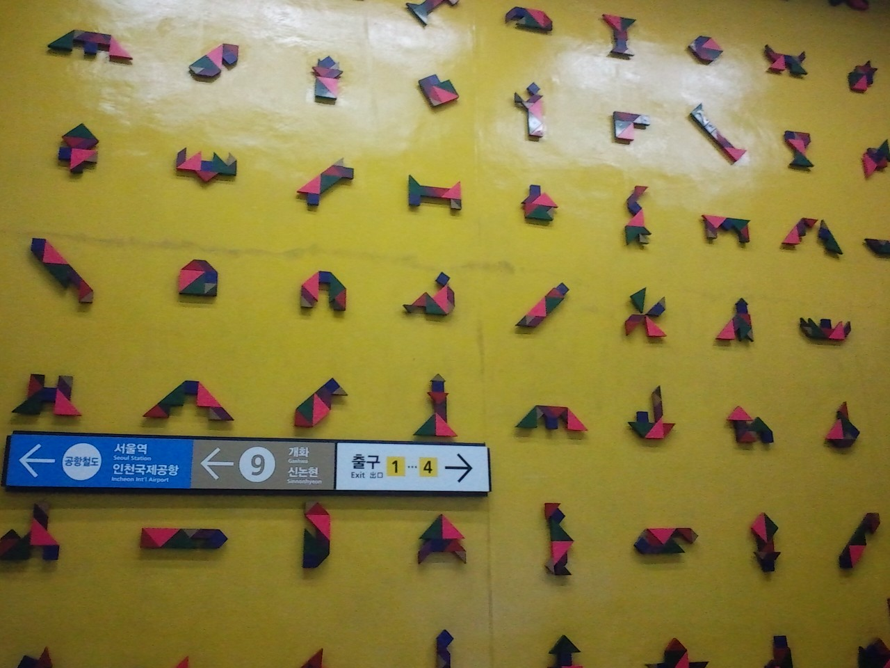 Gimpo airport stn line 5